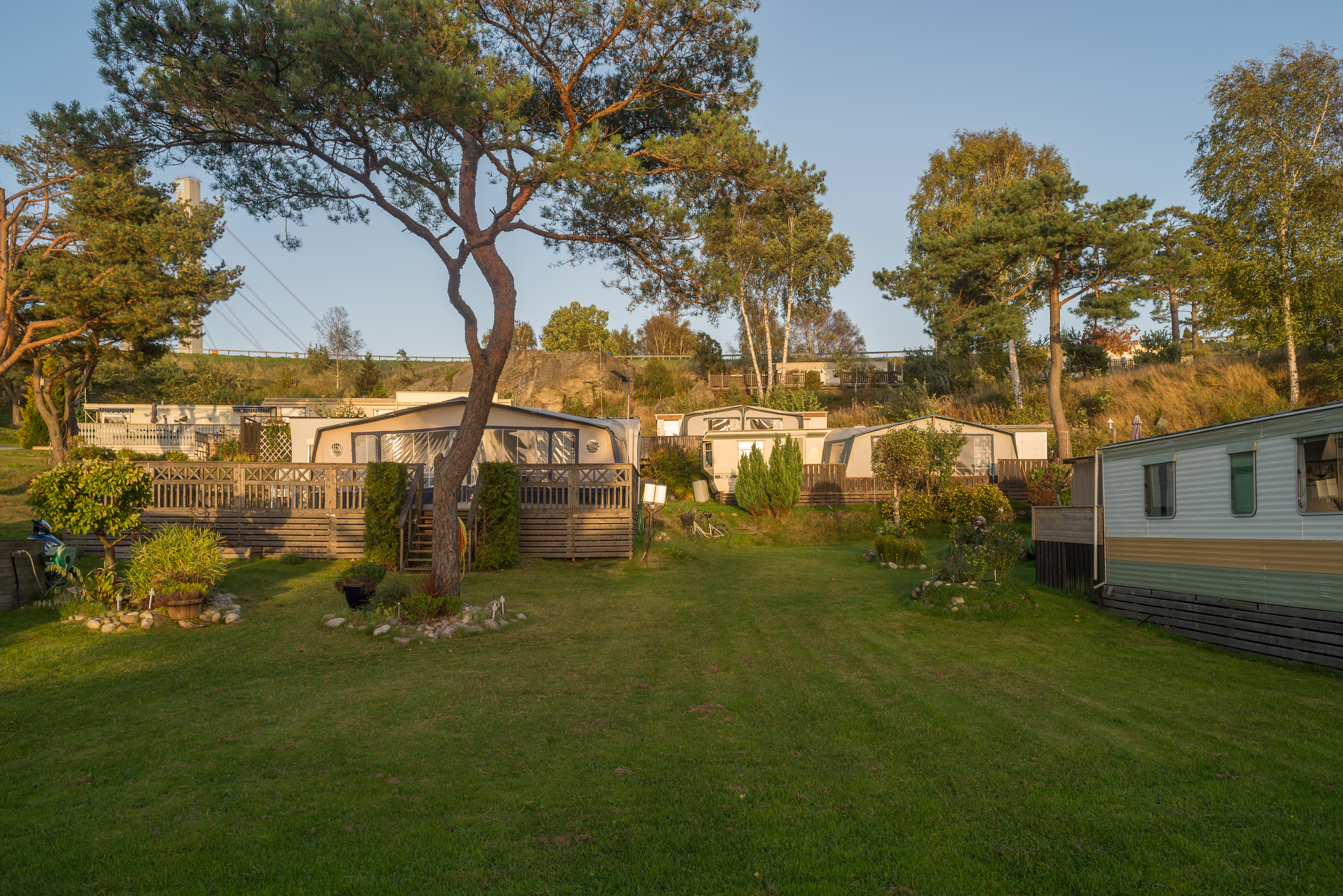 Camping ground "Tjörnbro Park" at the island Tjörn. Tjörn Municipality, Västra Götaland county (Sweden).